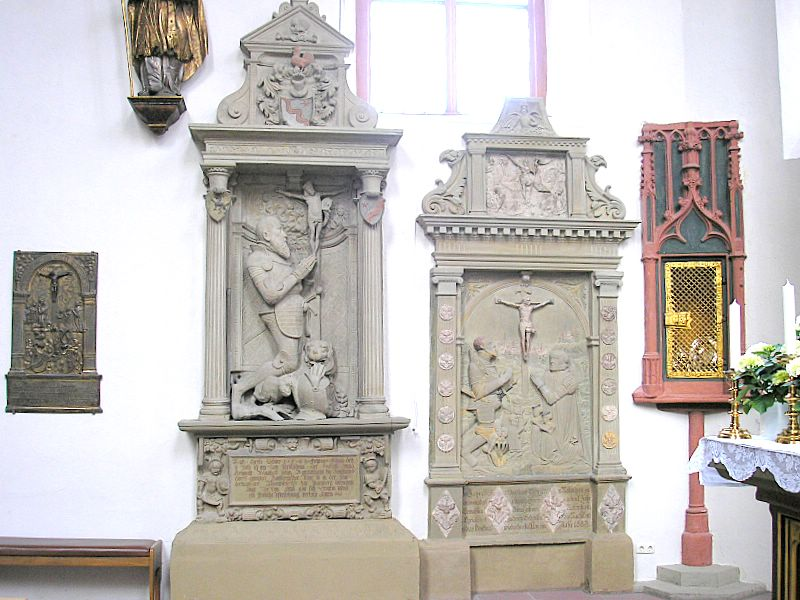 Ebern (Landkreis Haßberge, Lower Franconia, Germany). Parish church St. Laurentius. Epitaphs for Eyrich (left), Matthäus, Georg IV. and Anna von Rotenhan (16th century)